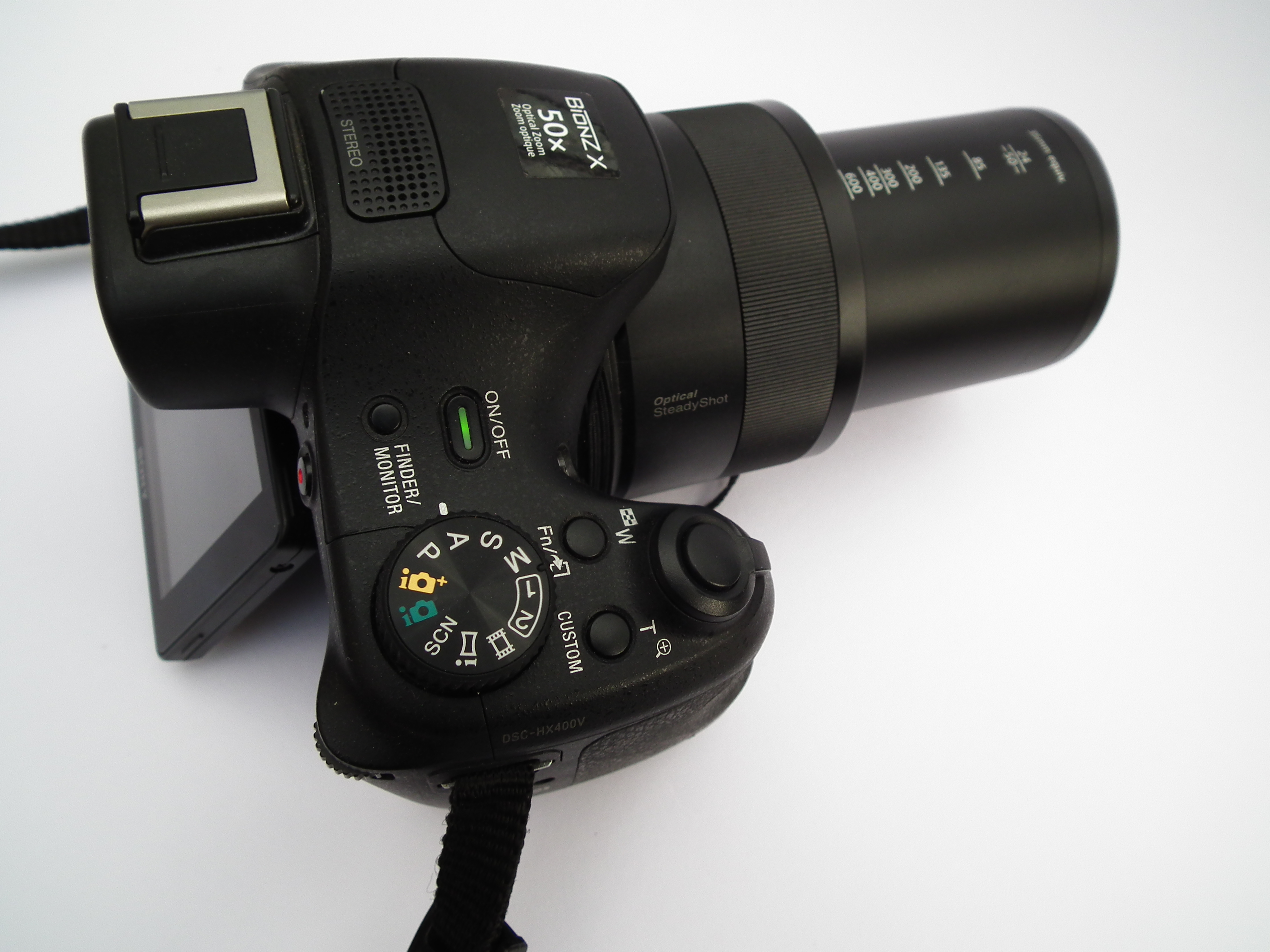 Sony Cybershot HX400V (sideview)